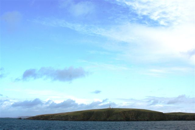 Lamba